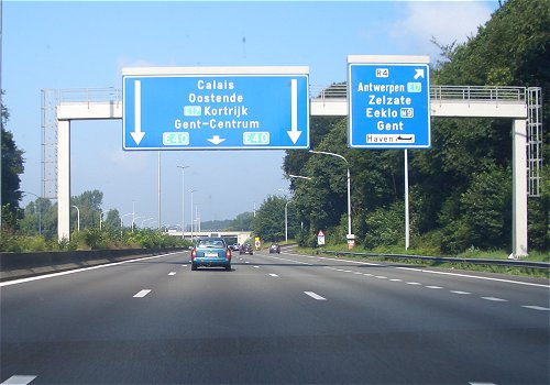 Highway A10/E40 in Belgium, interchange with R4/B403 Merelbeke